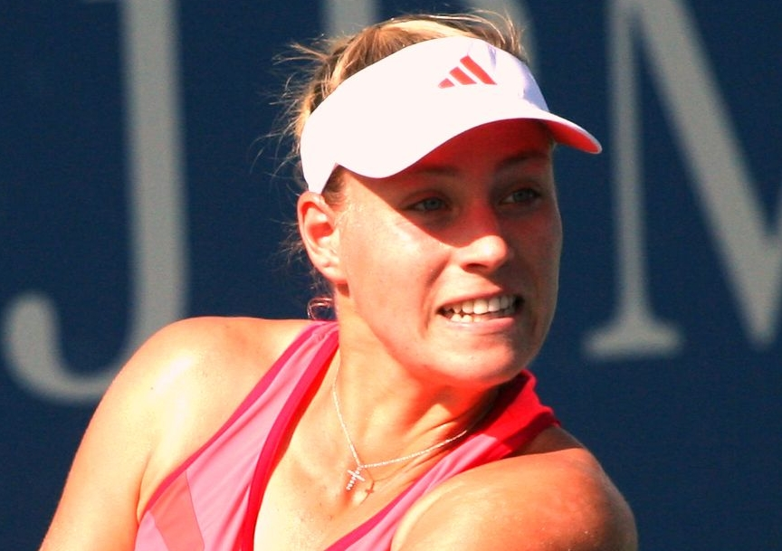 Angelique Kerber at the U.S. Open - Thursday, Sept. 8, 2011